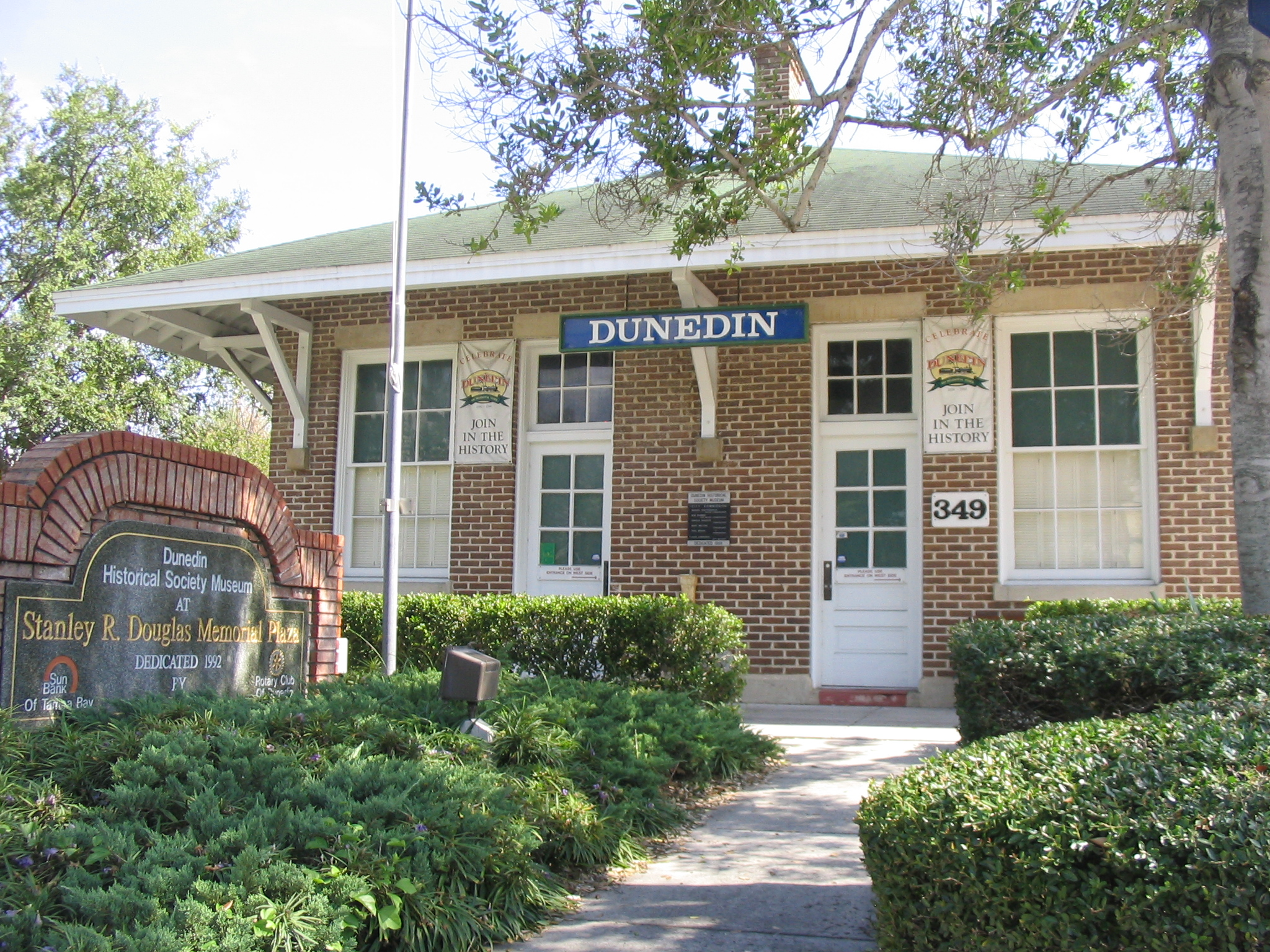 Dunedin Historical Society Museum